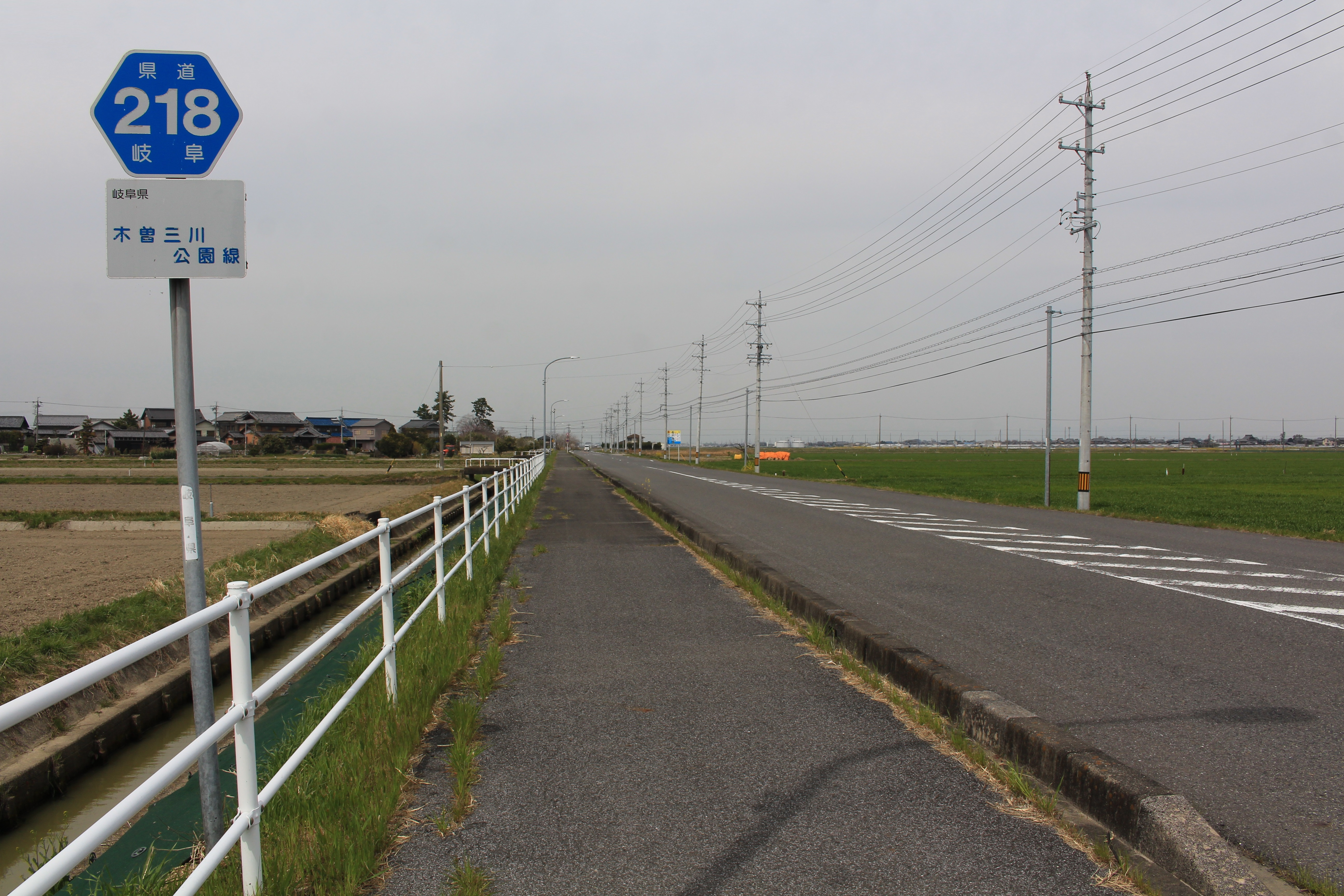 Gifu Prefectural Road Route 218 in Ishigame, Kaizu, Gifu prefecture, Japan.